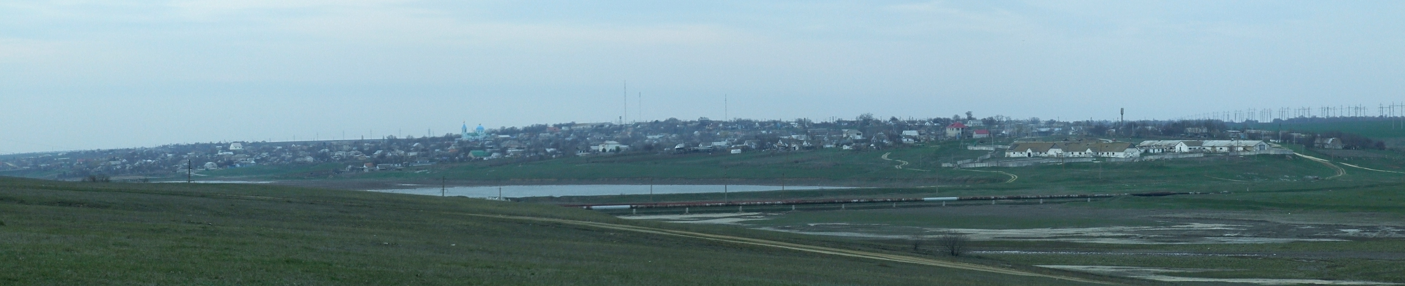 The panorama of Sverdlove village, Kominternivskyi Raion, Odessa Oblast, Ukraine